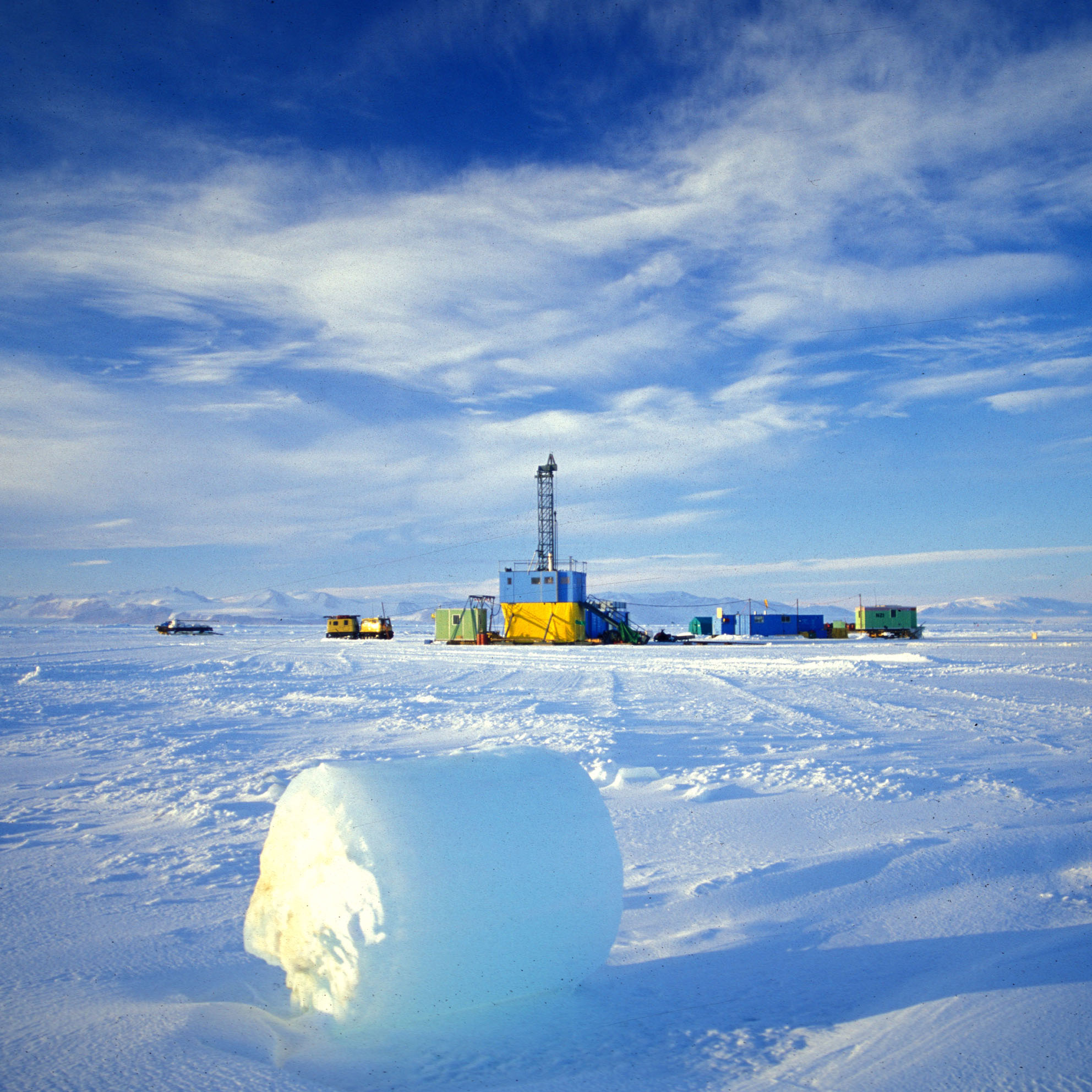 Drill rick on the sea ice in the Ross Sea, Antarctica, off Cape Roberts; used 1997-1999 to drill three cores for the reconstruction of geological history in an international research project.